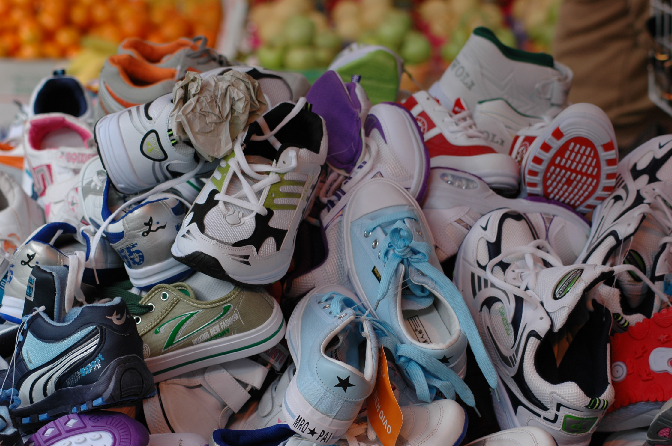 Project 365 #20 18/01/07 Shoes on sale in a Market in Quarry Bay, Hong Kong. Good luck finding a pair... I was wandering past here in my lunch break and just thought it was a really interesting scene. Lots of shoes and lots of fruit. The markets around where I work in Quarry bay are great and sell amazing stuff for outrageous prices. Not too long ago I bought my girlfriend some great tracksuit bottoms for 15HKD (equivalent of 1GBP or 2USD...) and they were also selling really warm beanie hats for 5HKD too. All of these shoes were 75HKD a pair inluding the MRO*PAI Converse Rip offs. Can't say any caught my eye individually, but as a group they looked great. Could only have asked for a bit more light...Shoes and Fruit (p365 20)